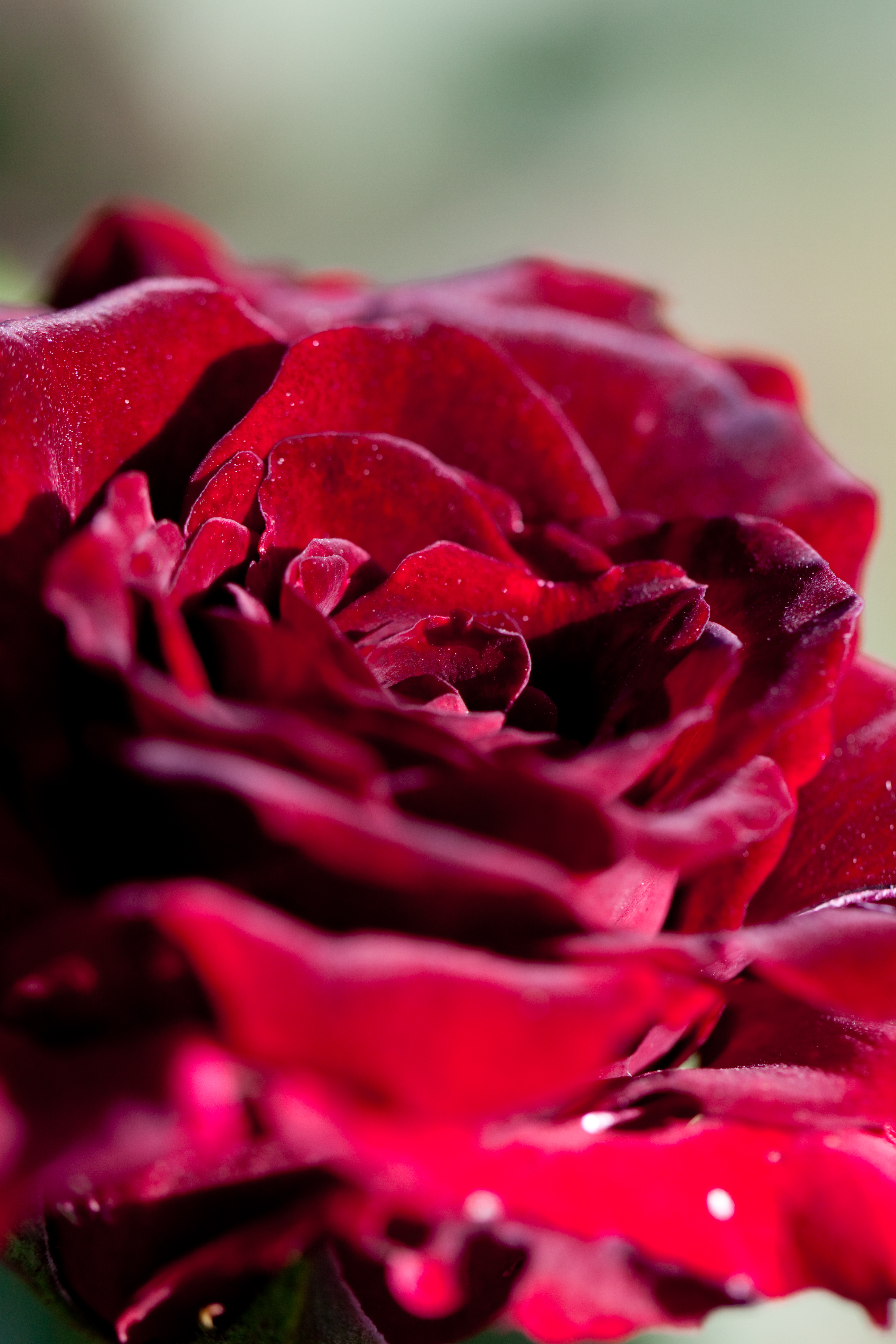 Kuro-Shinjyu. Means Black pearl. Production in Japan. 黒真珠。小ぶりな花だけど、その存在感は圧倒されるほど美しい。